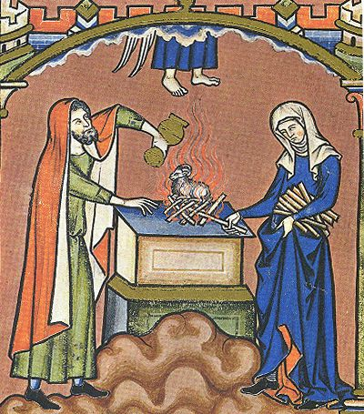 Images from the Maciejowski Bible, Leaf 14: Manoah and his wife give a sacrifice.